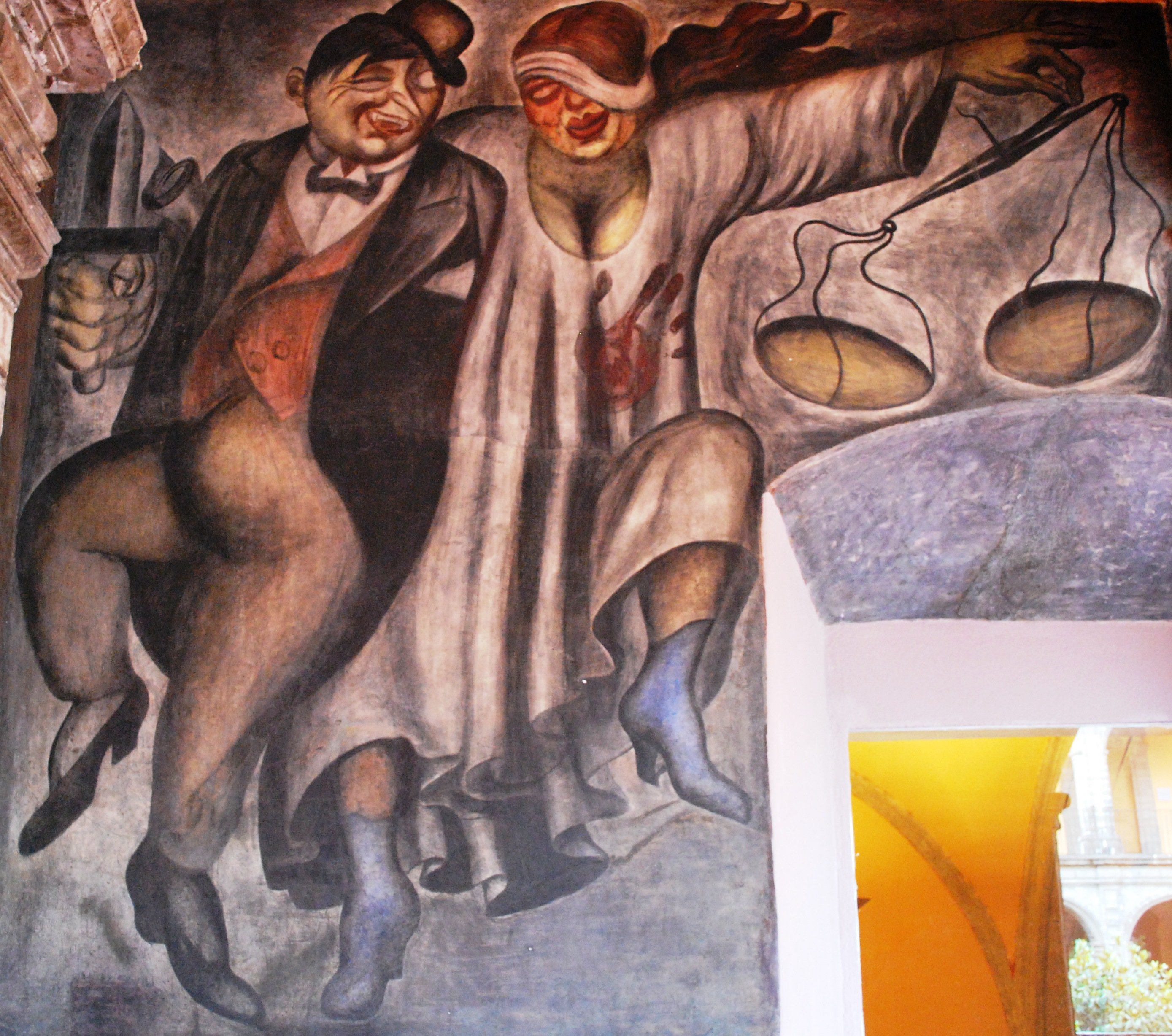 Mural section entitled "La ley y la justicia" (Law and Justice) by Jose Clemente Orozco on one of the walls of the San Ildefonso College in the historic center of Mexico City. This mural falls under Freedom of Panorama under Mexican law